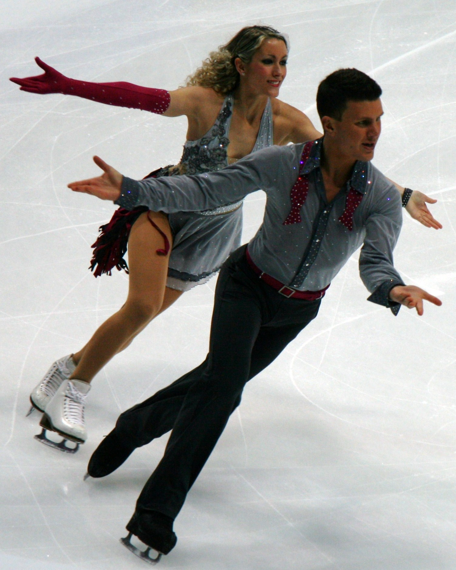 Charlene Guignard and Marco Fabbri at the 2011 World Figure Skating Championships